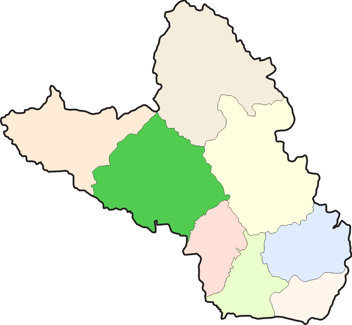 Planned Udvarhely Seat